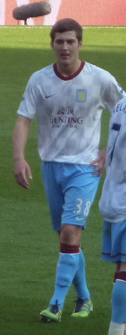 Gary Gardner, player of Aston Villa FC